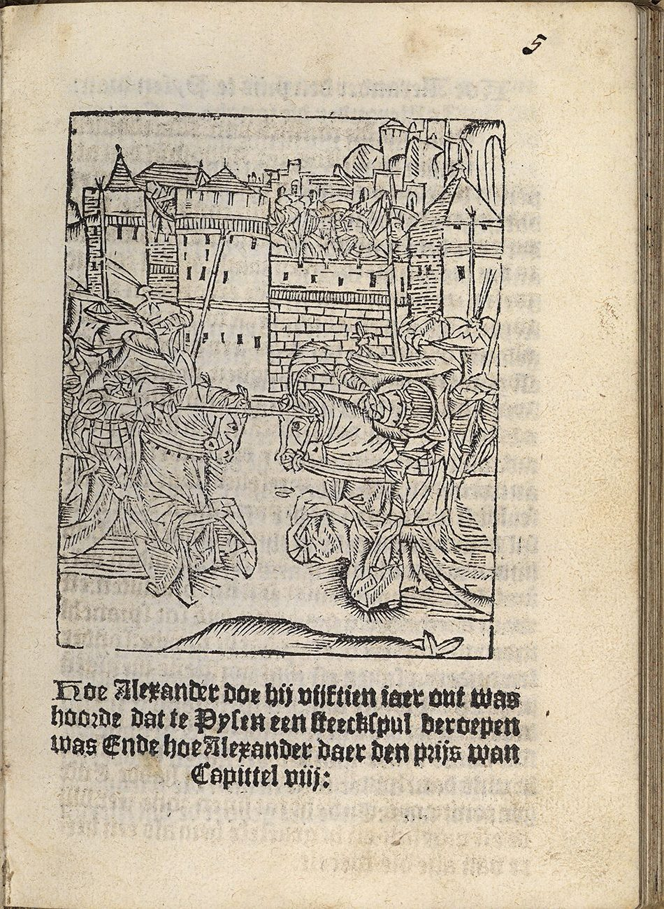 First non-religious book printed in the Netherlands, in Delft by printer Christiaen Snellaert 1491: Die hystorie vanden grooten Coninck Alexander. Xylographic incunable with 7 woodblock prints. Bought March 14 2009 bij the Dutch Royal Library.